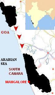 The image gives a description of how Goan Catholics migrated to Mangalore from various towns in Goa between 1500 AD to 1763 AD. Red arrows taken from Image:Red Arrow Down.svg Map modified from Image:Karnataka locator map.svg